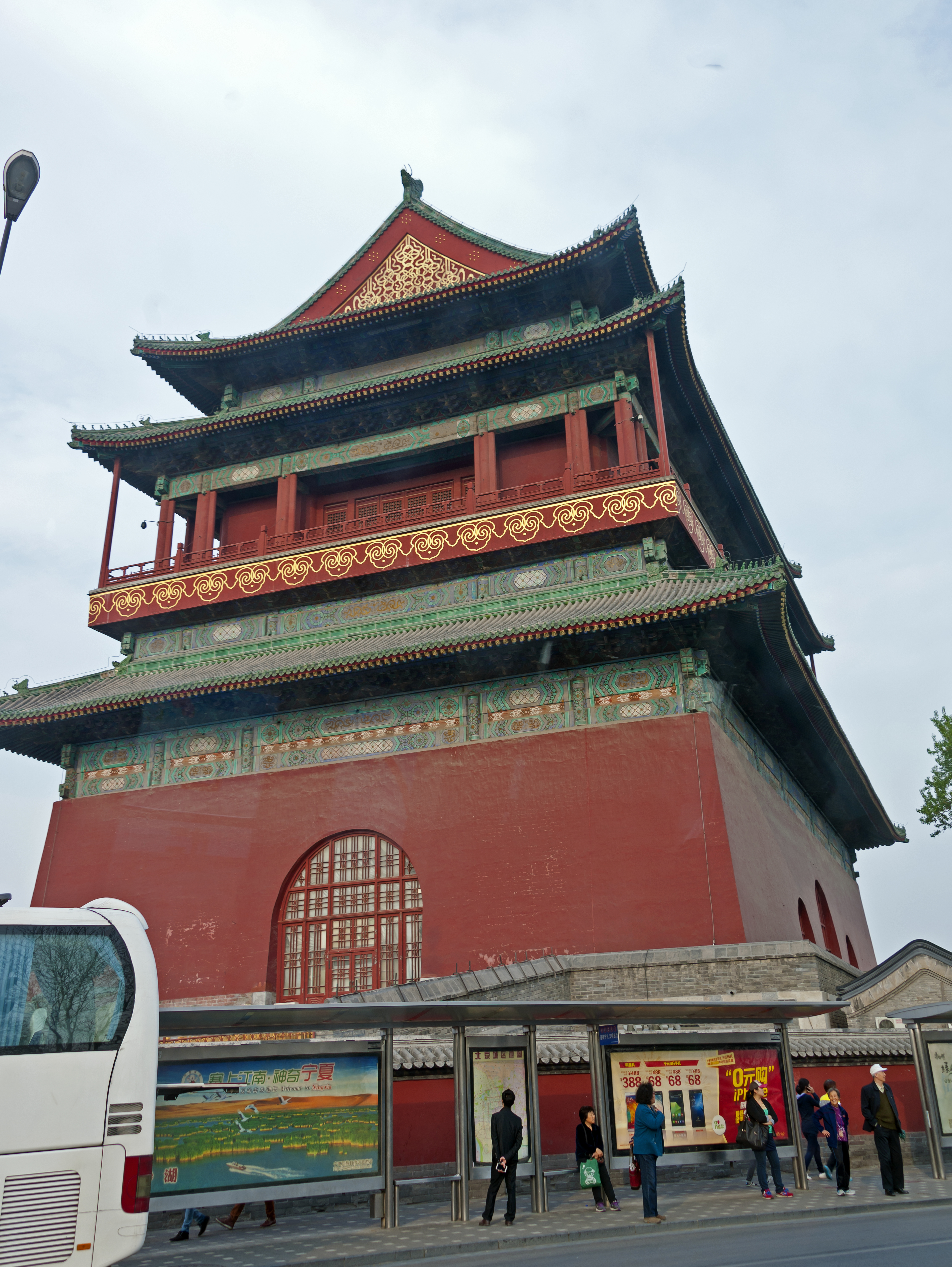 The Beijing Drum Tower from a passing tour bus.